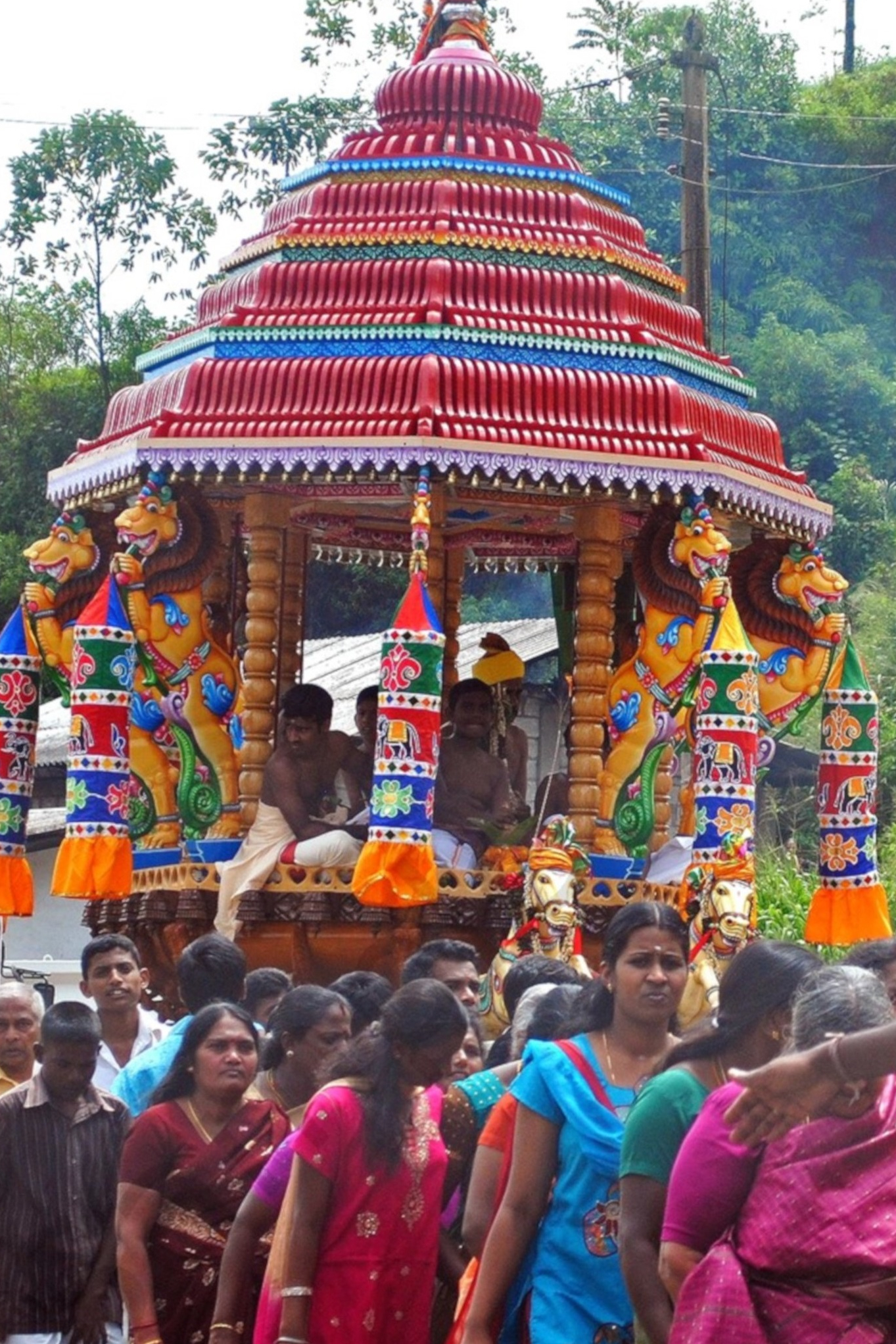 The Vel Chariot makes its way through Nuwara eliya town in Sri Lanka.